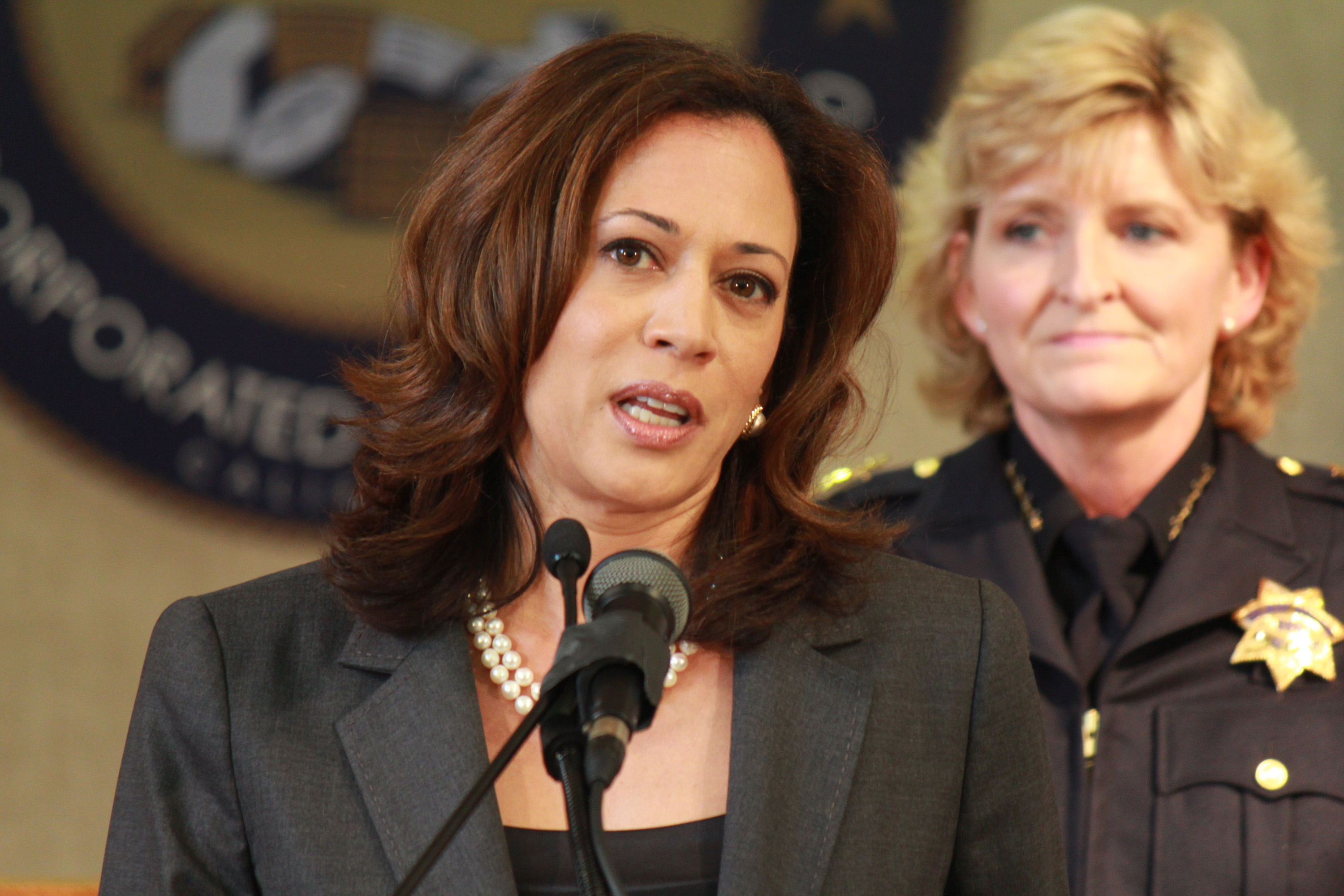 104 individuals, the majority of whom are gang members with prior felony convictions, were arrested after an 18-month investigation by California Department of Justice agents. Gilroy - October 14, 2011.